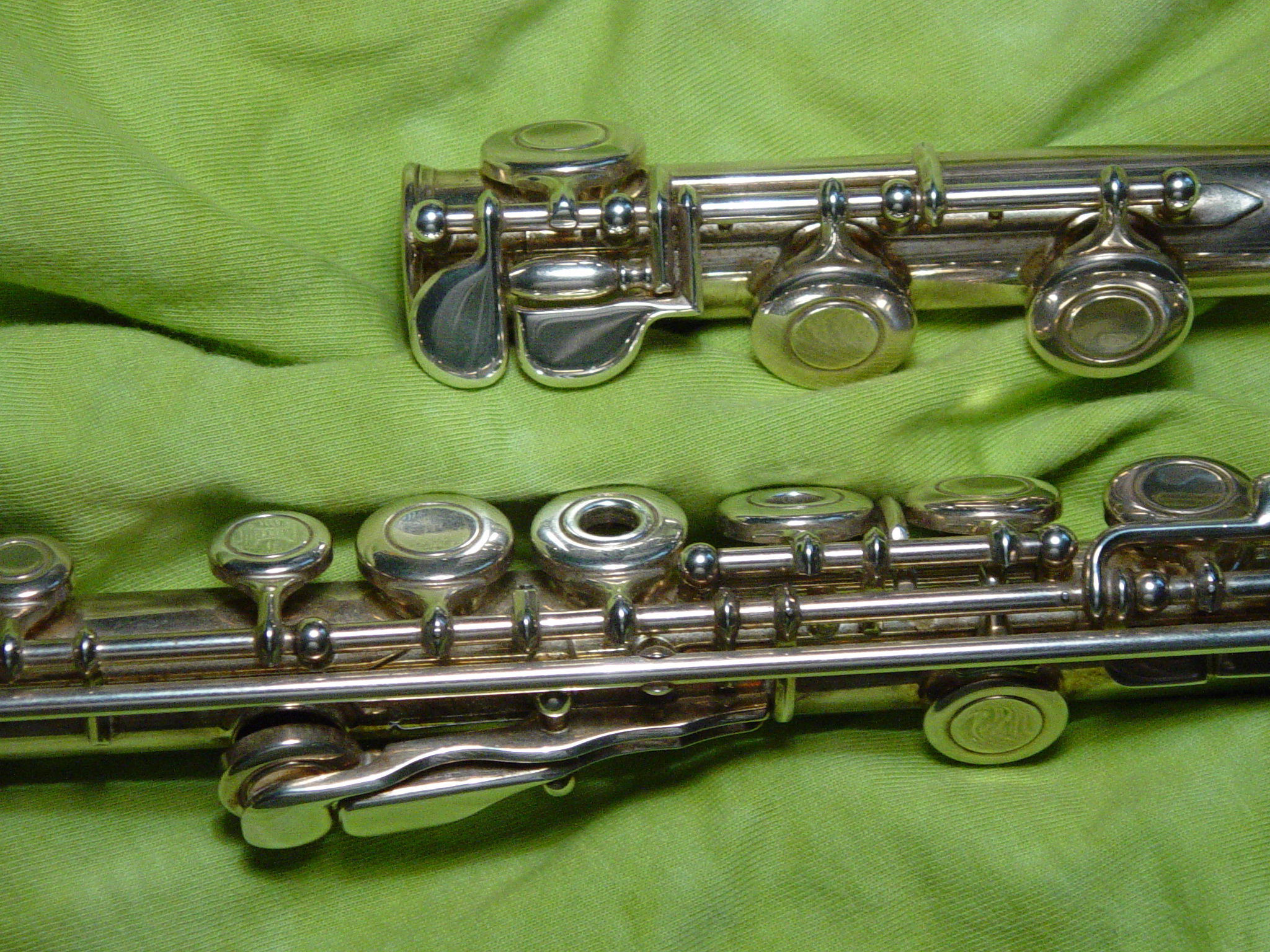 Western concert flute, yamaha 261, opened hole, Theobald Böhm keys, detail; flauta travesera de platos abiertos yamaha 261, llaves de Theobald Böhm, detail